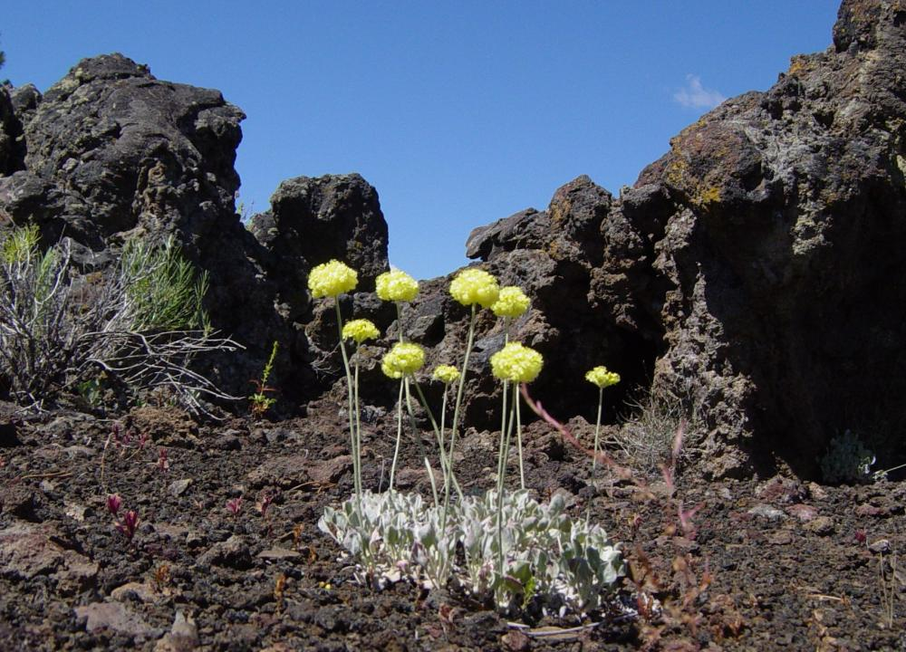 Image taken in July 2004 by Daniel Mayer.